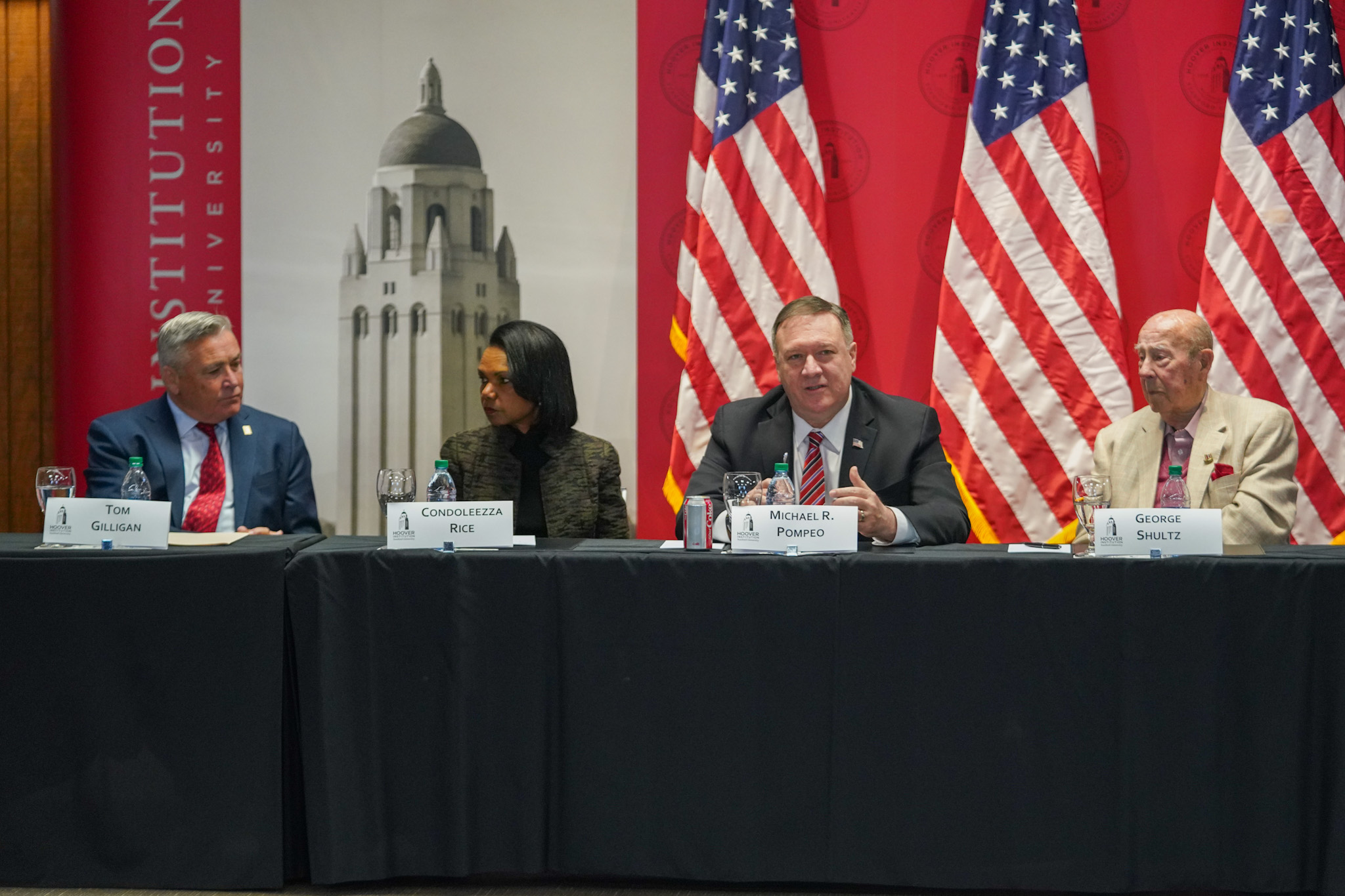 Secretary of State Michael R. Pompeo participates in a roundtable discussion with Hoover Institute Fellows at The Hoover Institution, Stanford University, in Palo Alto, California on January 13, 2020. [State Department photo by Ron Przysucha/ Public Domain]